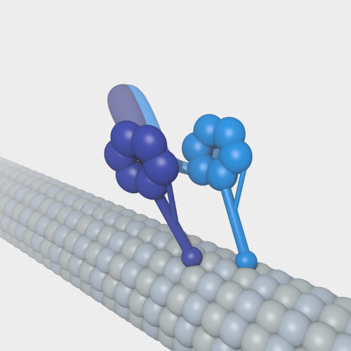 An illustration of cytoplasmic dynein on a microtubule, without labels.